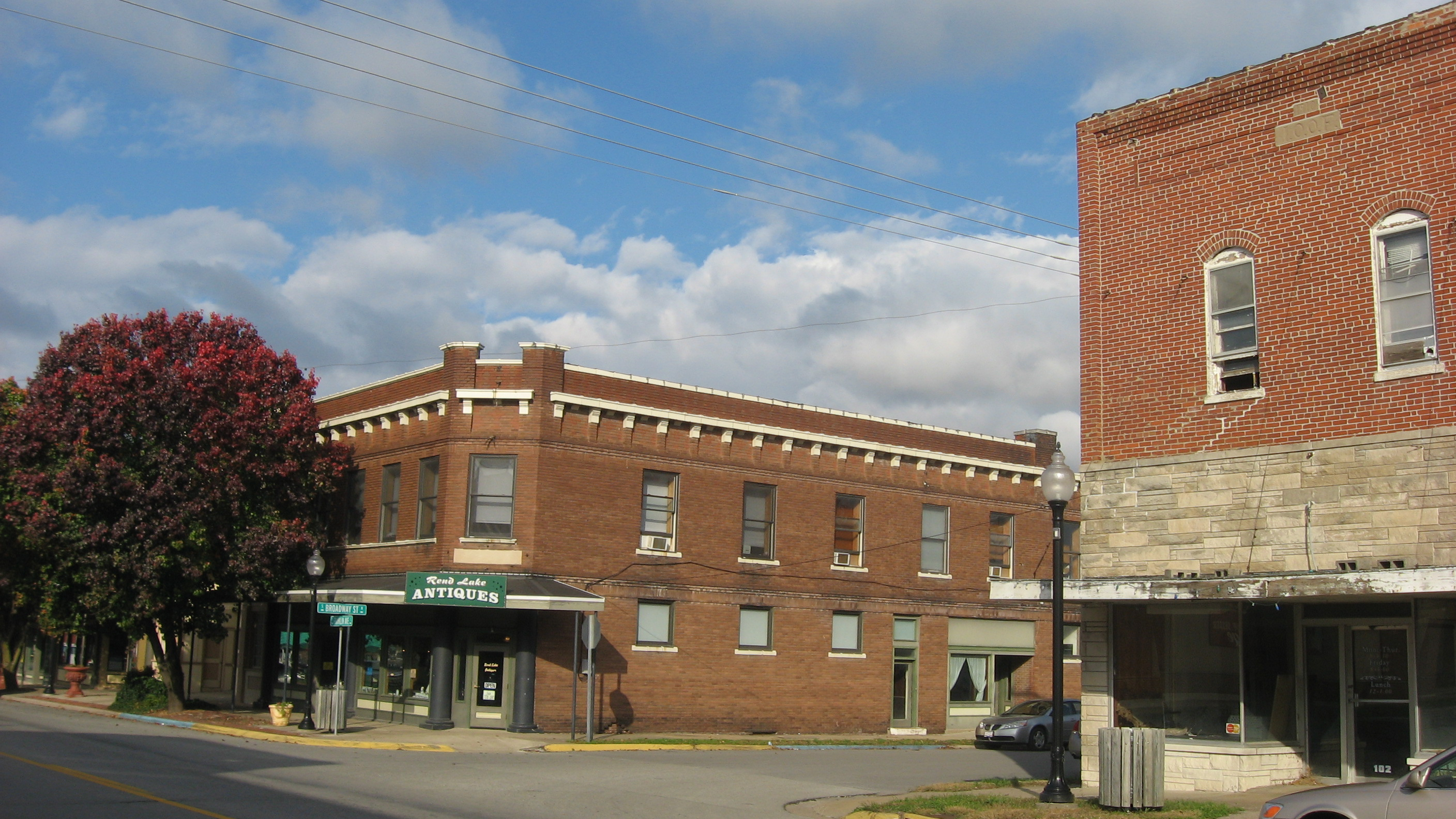 Buildings on the northern corners of the junction of Franklin Street (Illinois Route 154) and Broadway in downtown Sesser, Illinois, United States.